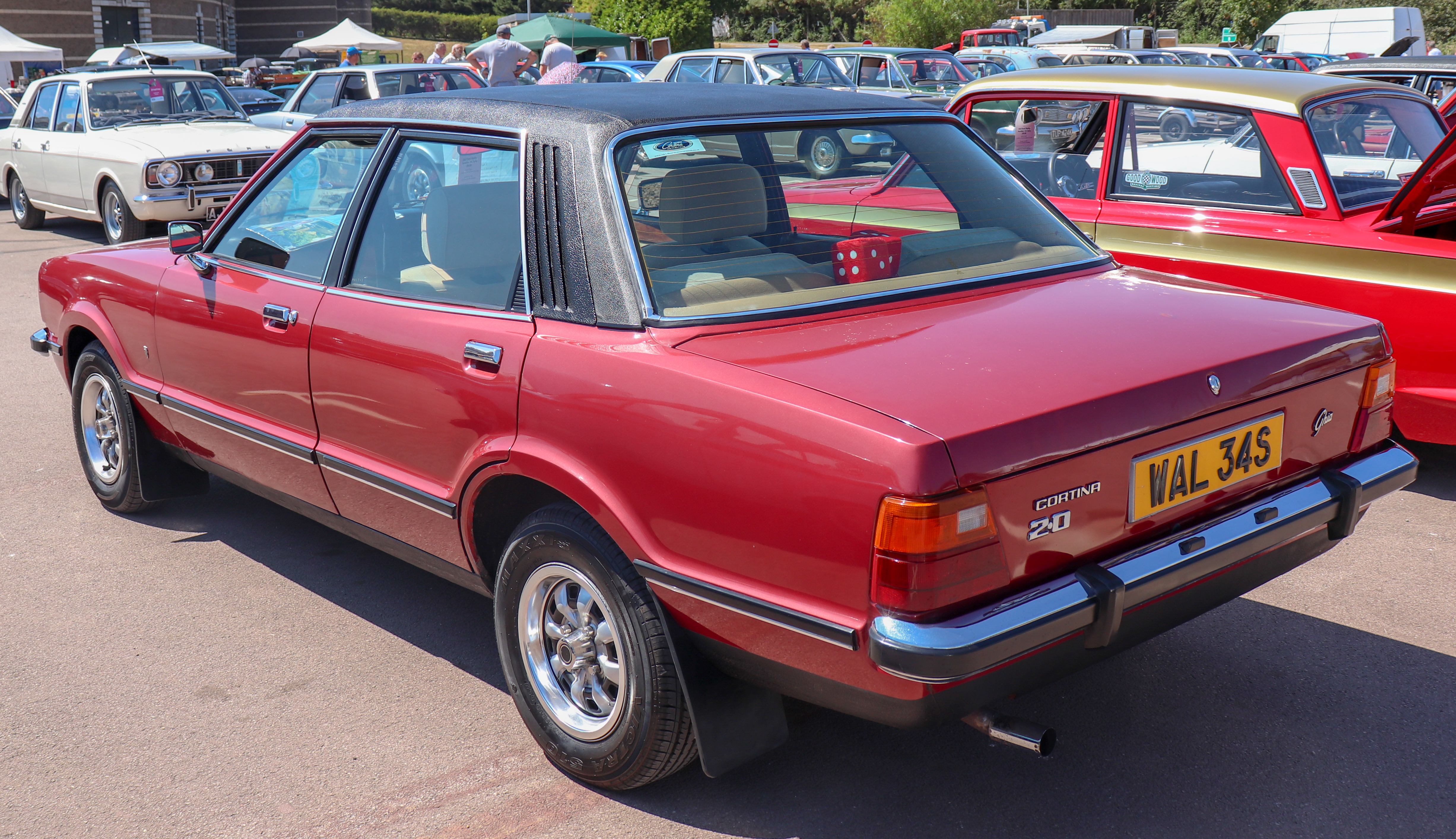 1978 Ford Cortina Ghia 2.0 Rear Taken at the British Motor Museum Old Ford Rally 2018, Gaydon